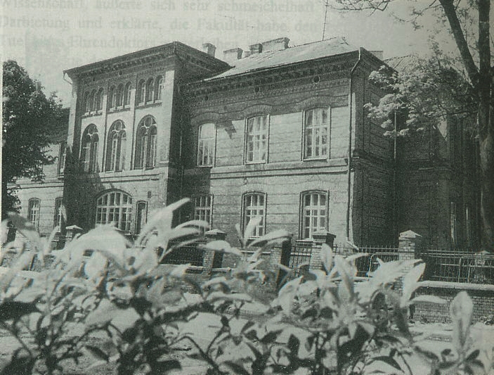 Clinic of Ophthalmologie in Koenigsberg/ Prussia, (todays Kaliningrad) built 1877 as University Institute